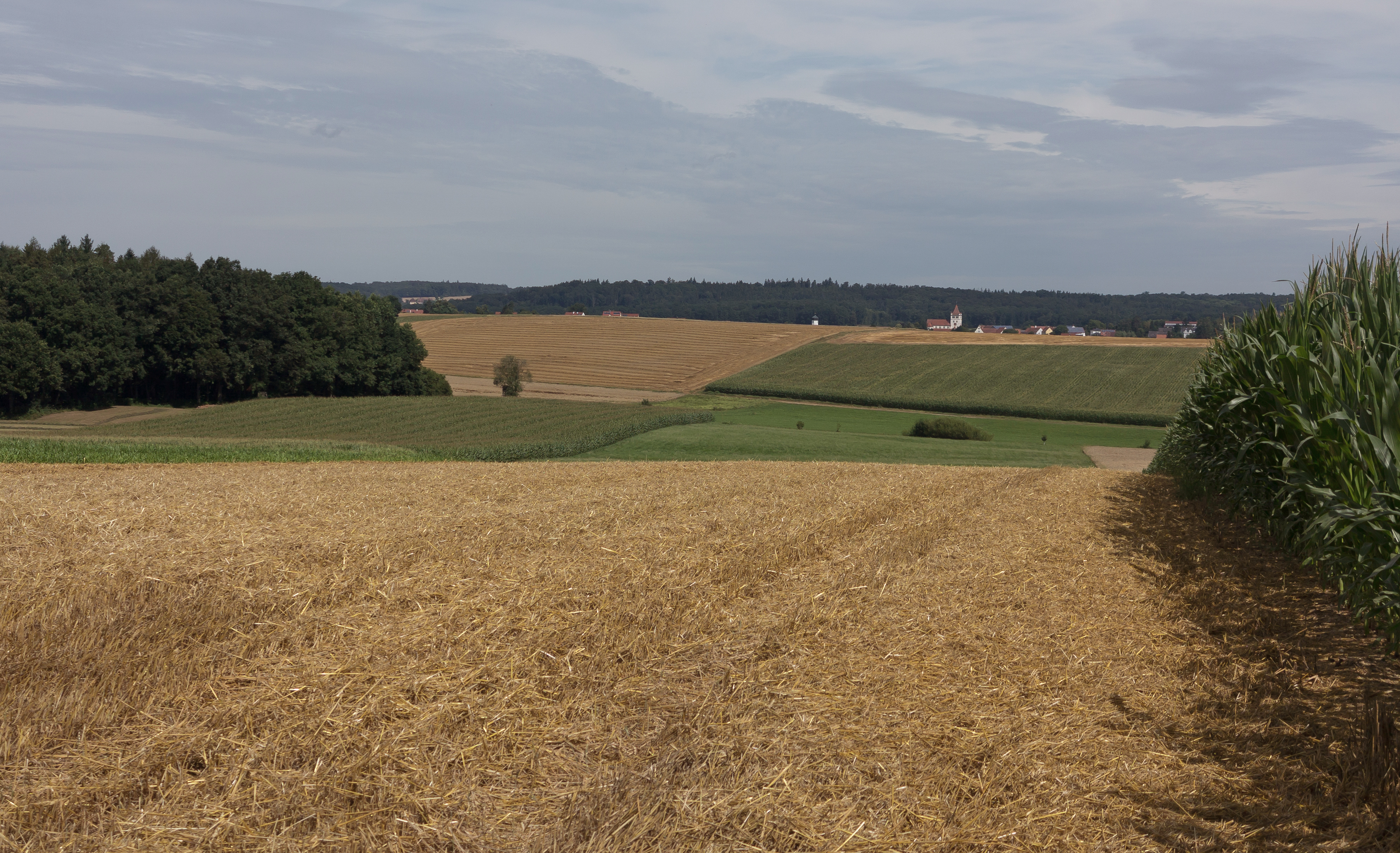 between Fremdingen and Minderoffingen, panorama